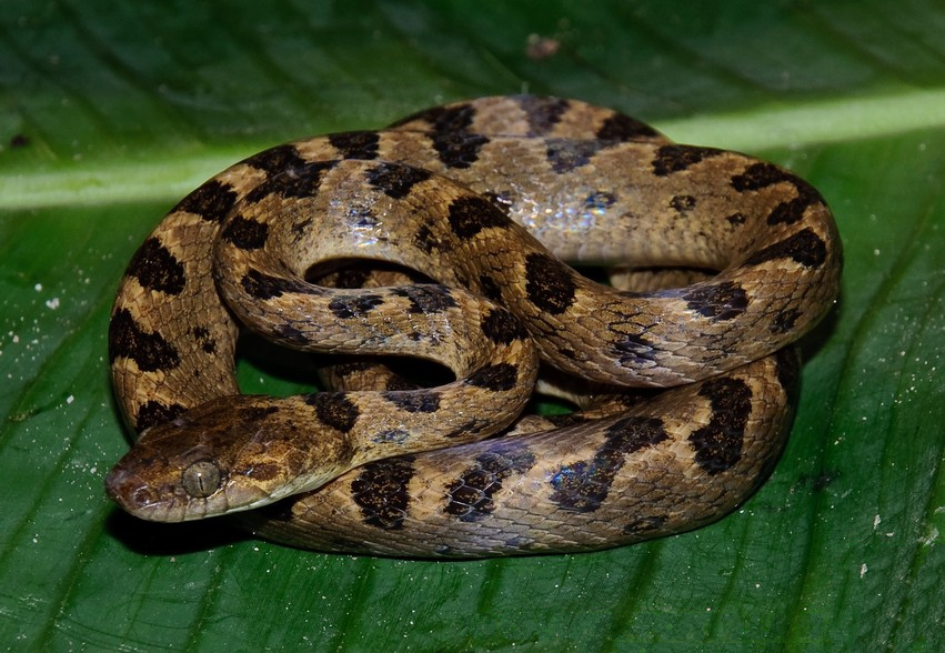 Leptodeira annulata